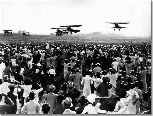 Shanghai Hongqiao Airport in October 1932. 中文（中国大陆）: 1932年10月的上海虹桥机场，一大批人正在观看准备起飞和降落的飞机。